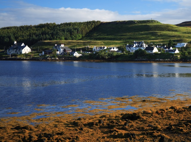 Dunvegan, Highlands, Scotland